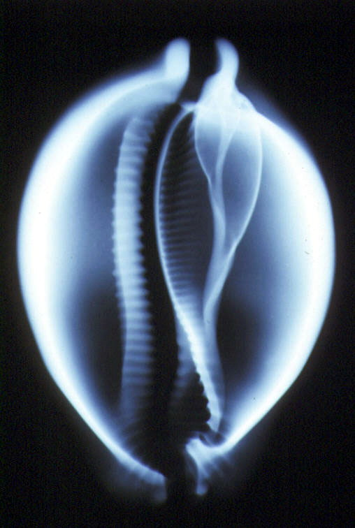 Seashell radiology: Cypraea